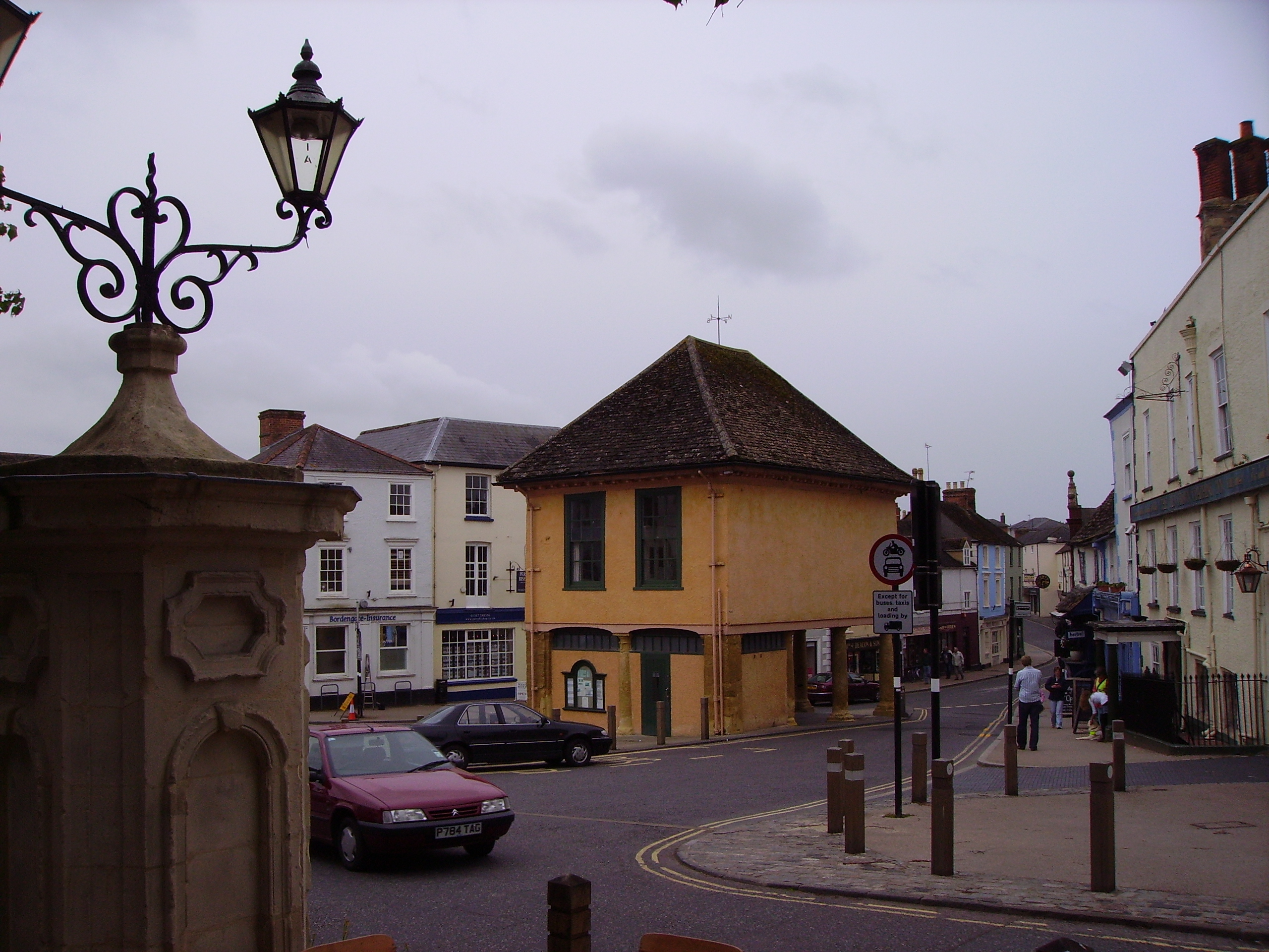 Faringdon market place